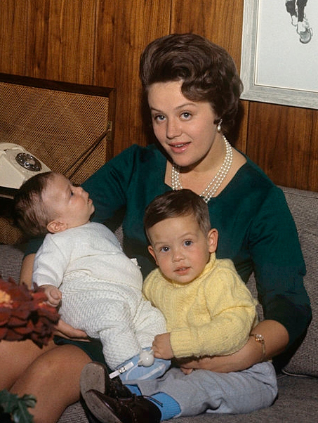 Princess Muna al-Hussein sitting on the sofa with her two children in her arms, including Abdullah II of Jordan. Jordan, 24th March 1964